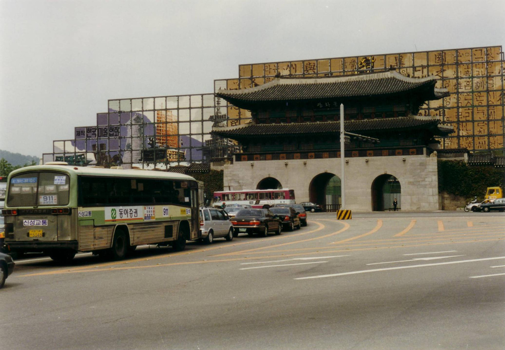 Image of the demolition of the Japanese General Government Building, Seoul. Sourced from at the suggestion of the photographer.